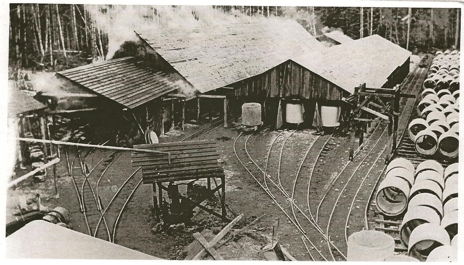 The pipe segment factory on the Goodridge Peninsula.